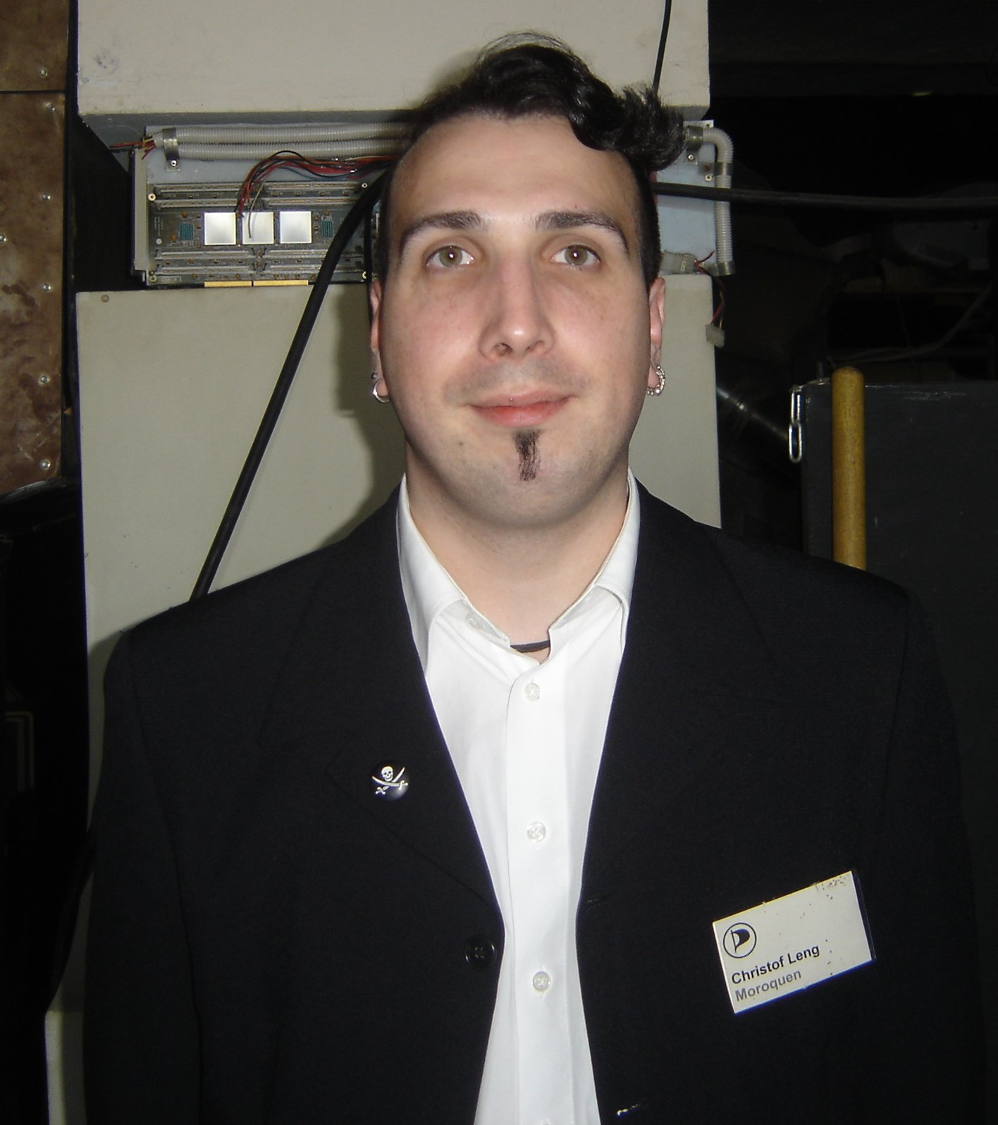 Elected Pirate Party President Christof Leng